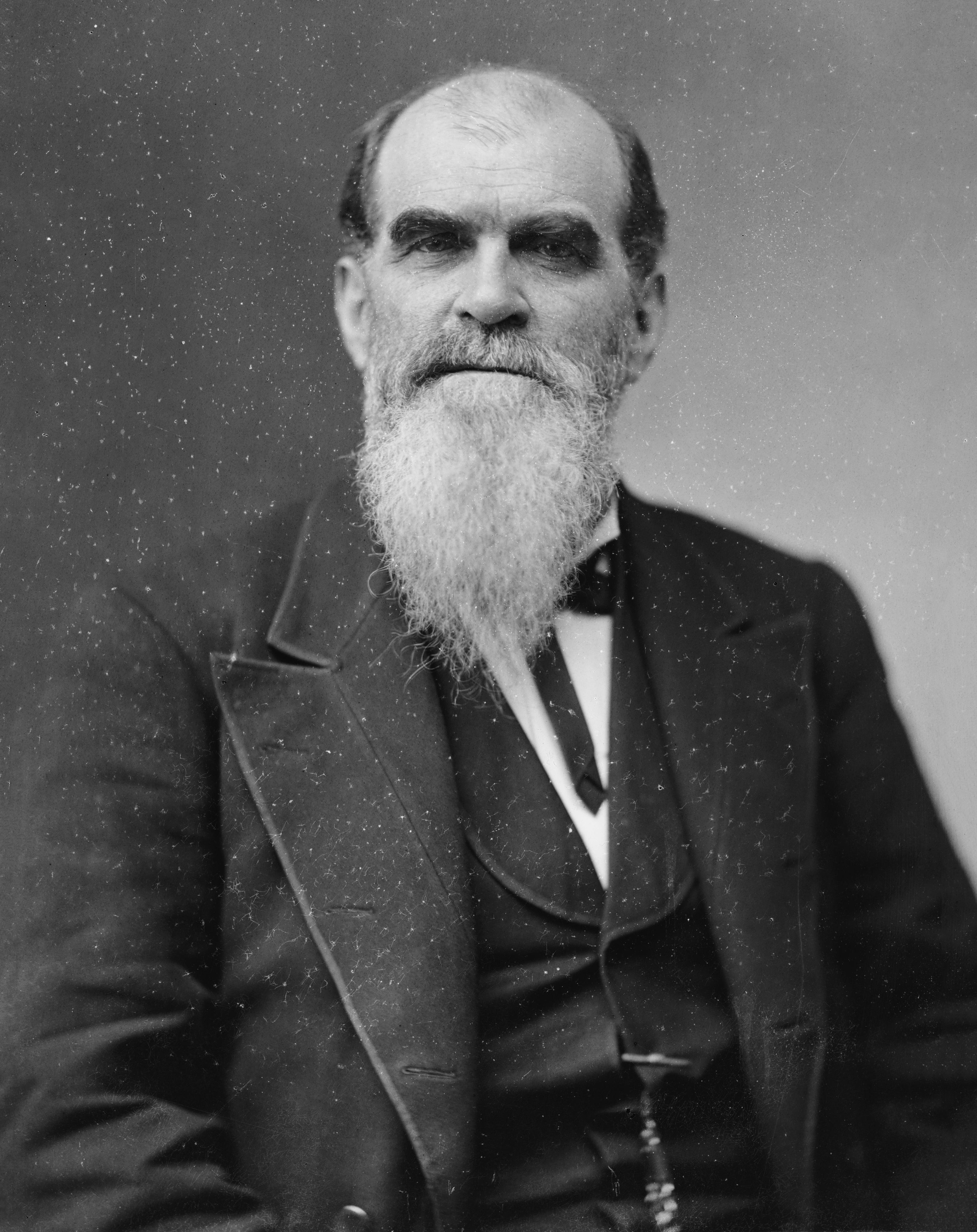 Richard Coke. Library of Congress description: "Sen. Richard Coke, Texas".